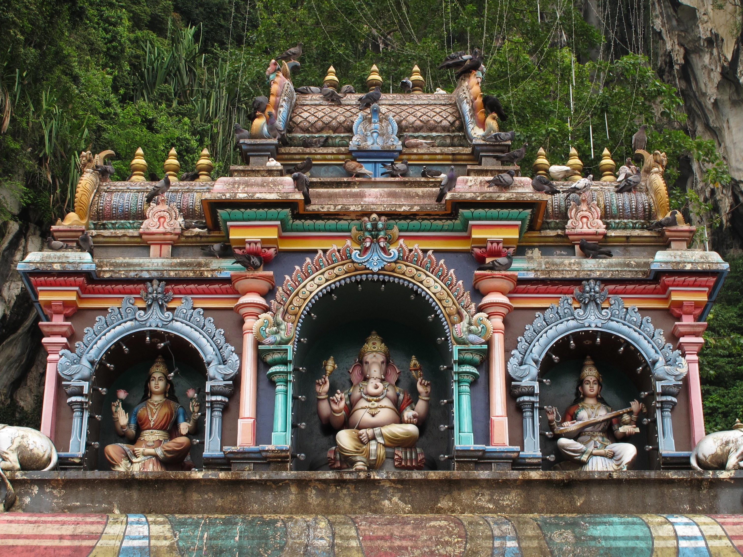 Idols, statues Hinduism in Malaysia